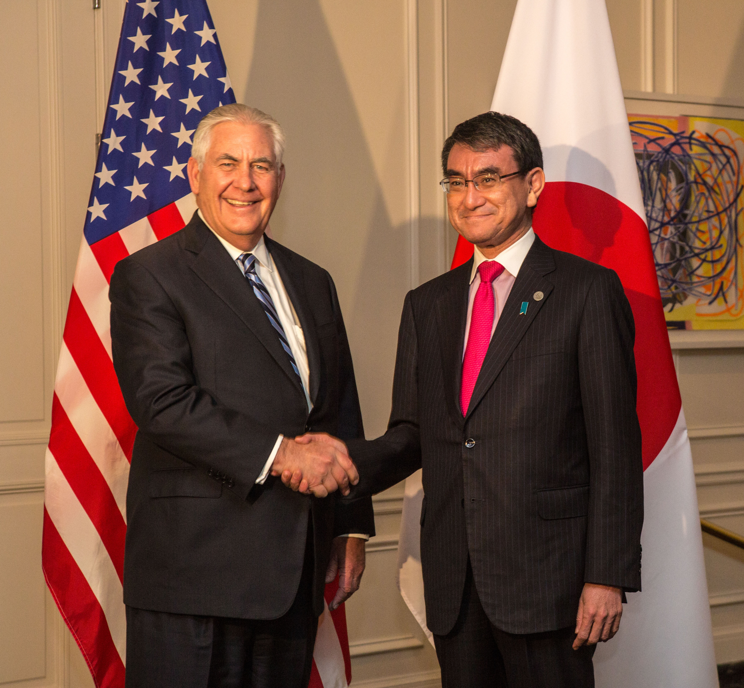 U.S. Secretary of State Rex Tillerson poses for a photo with Japanese Foreign Minister Taro Kono before a bilateral working dinner at the Rosewood Hotel Georgia in Vancouver, Canada on January 16, 2018.